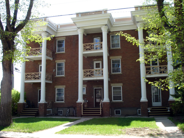 The Arrand Block (1912), a municipal heritage building in Saskatoon, Saskatchewan, Canada.